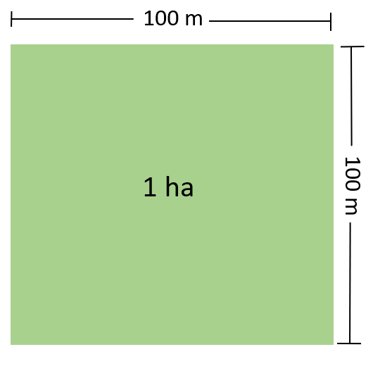 Simple visual representation of one hectare, measurement of land.